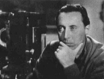 photo from Italian magazine Film, II, 52, 30 December 1939, p. 4.